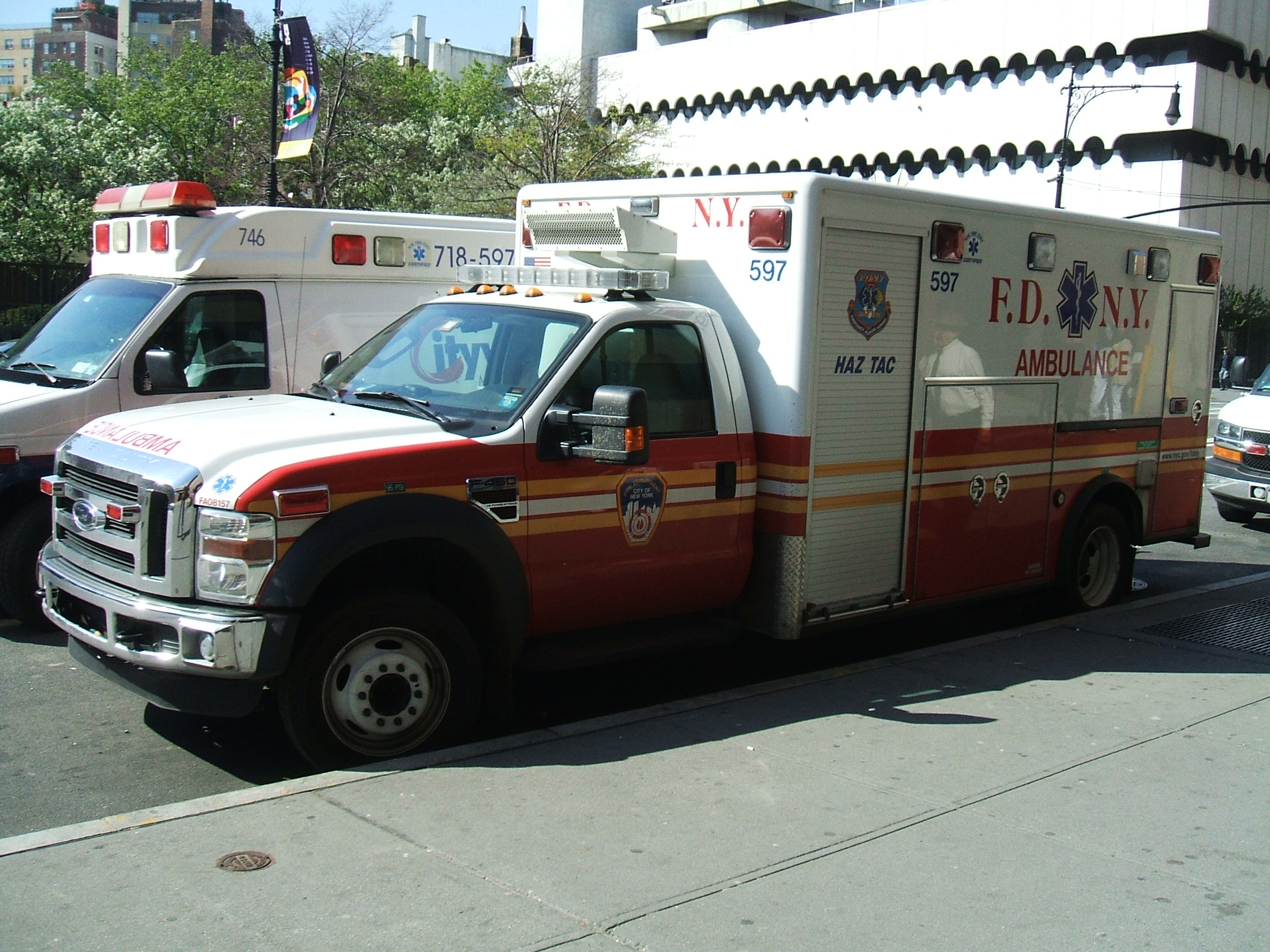 An FDNY Hazardous Material Tactical Unit (Haz-Tac Ambulance), with "AMBULANCE" in mirror writing ("ECNALUBMA").